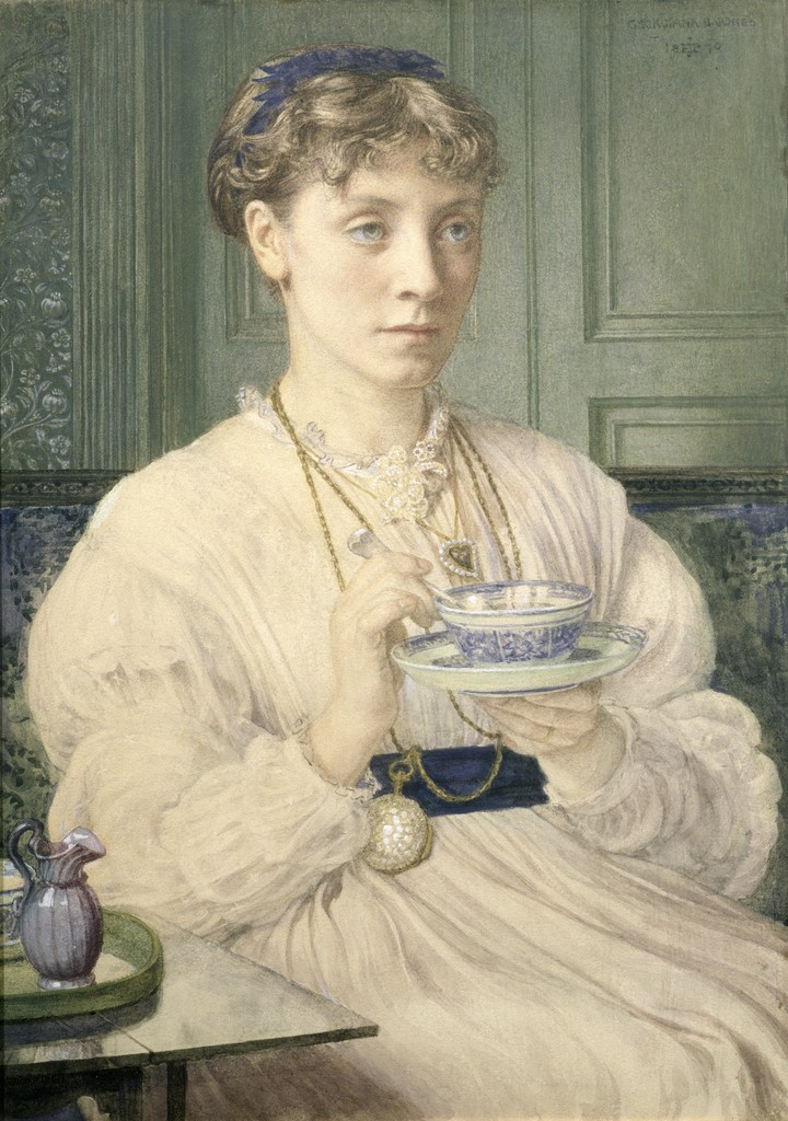 Portrait of Georgiana Burne-Jones (1840-1920)